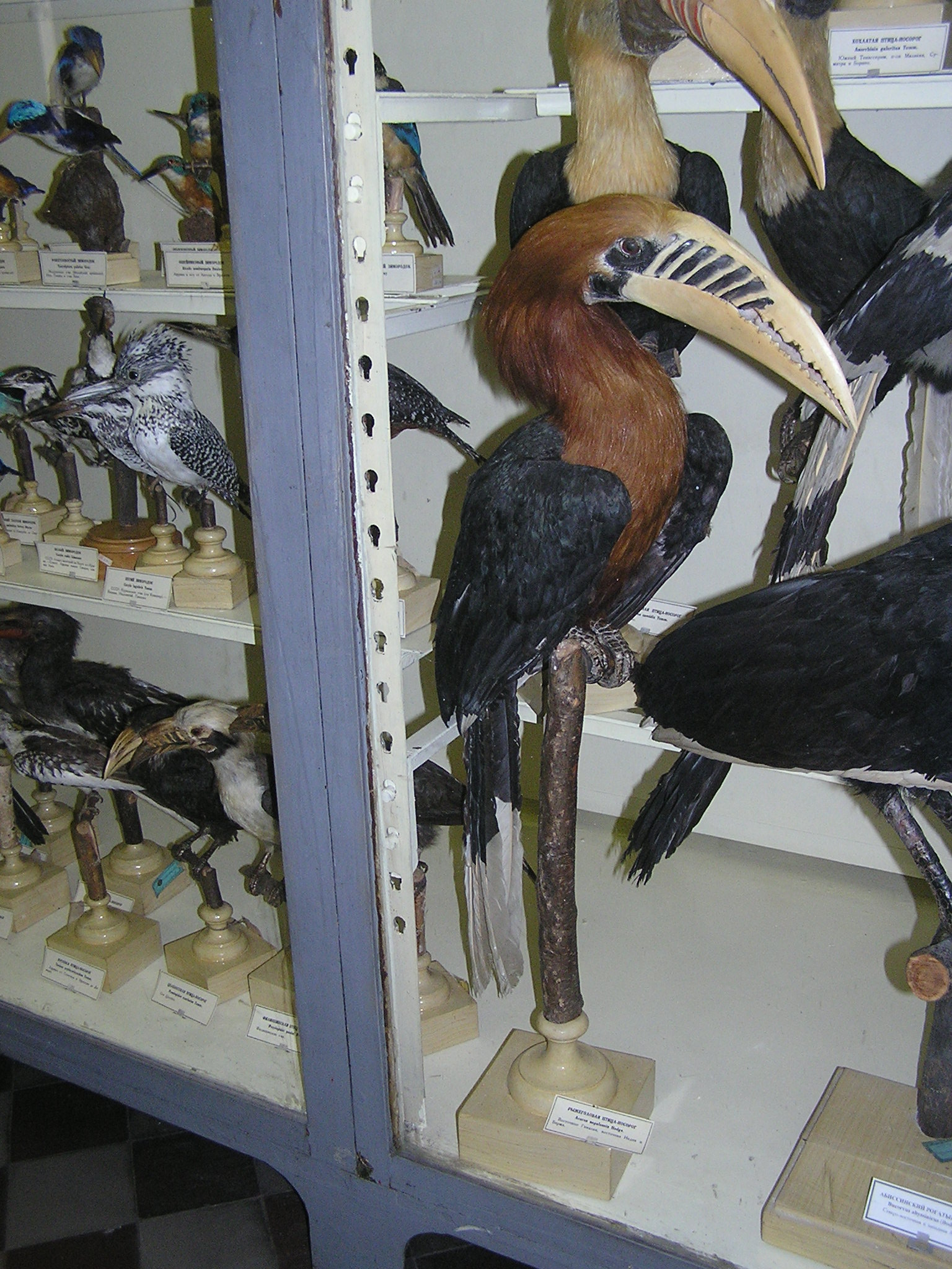 Stuffed specimen of Aceros nipalensis, Museum of Zoology, Saint Petersburg